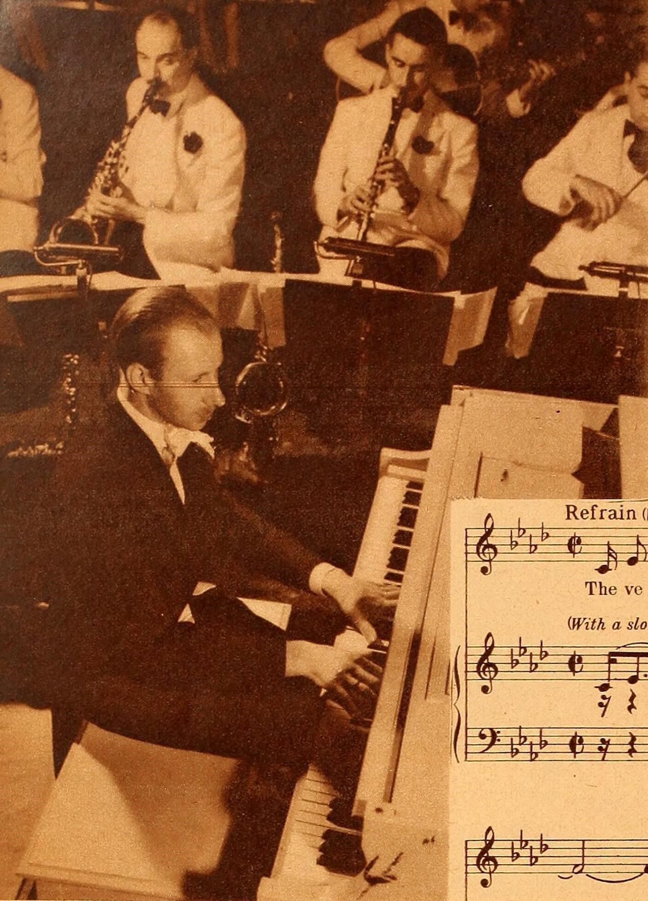 Ray Noble on piano